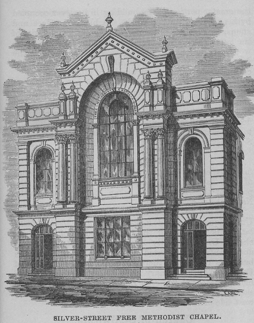 Silver Street Free Methodist Chapel, Lincoln by Pearson Bellamy